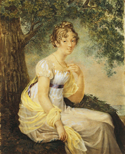 Jeanne Henriette Rath. Autoportrait. Ca. 1800